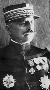 Picture of Louis_Franchet_D'Esperey from a PD site. The pic is, says on the site, scanned from a PD book and is avaliable for usage on commons